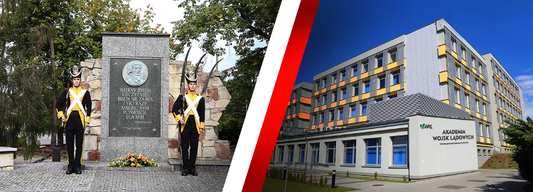 Historia i Współczesność